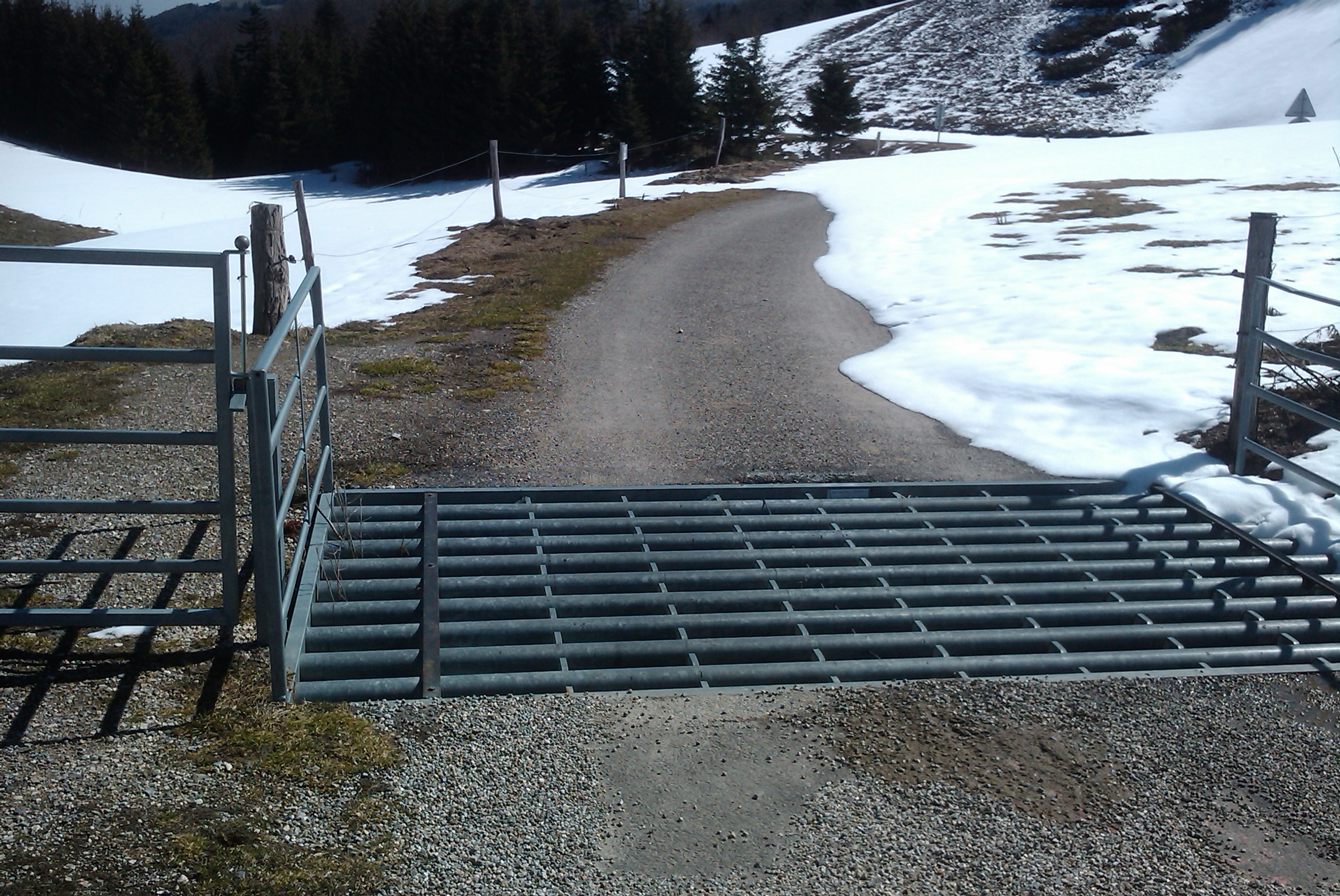 Cattle grid in Ariège (France)